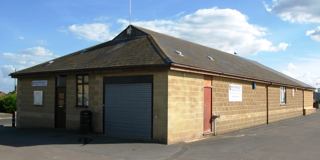 The boathouse for the Burnham Area Rescue Boat. This was built in three days by Anneka Rice as part of her Challenge Anneka television series.